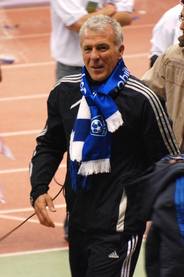 Eric Gerets After the celebration of Al Hilal in Saudi League 2009/2010.